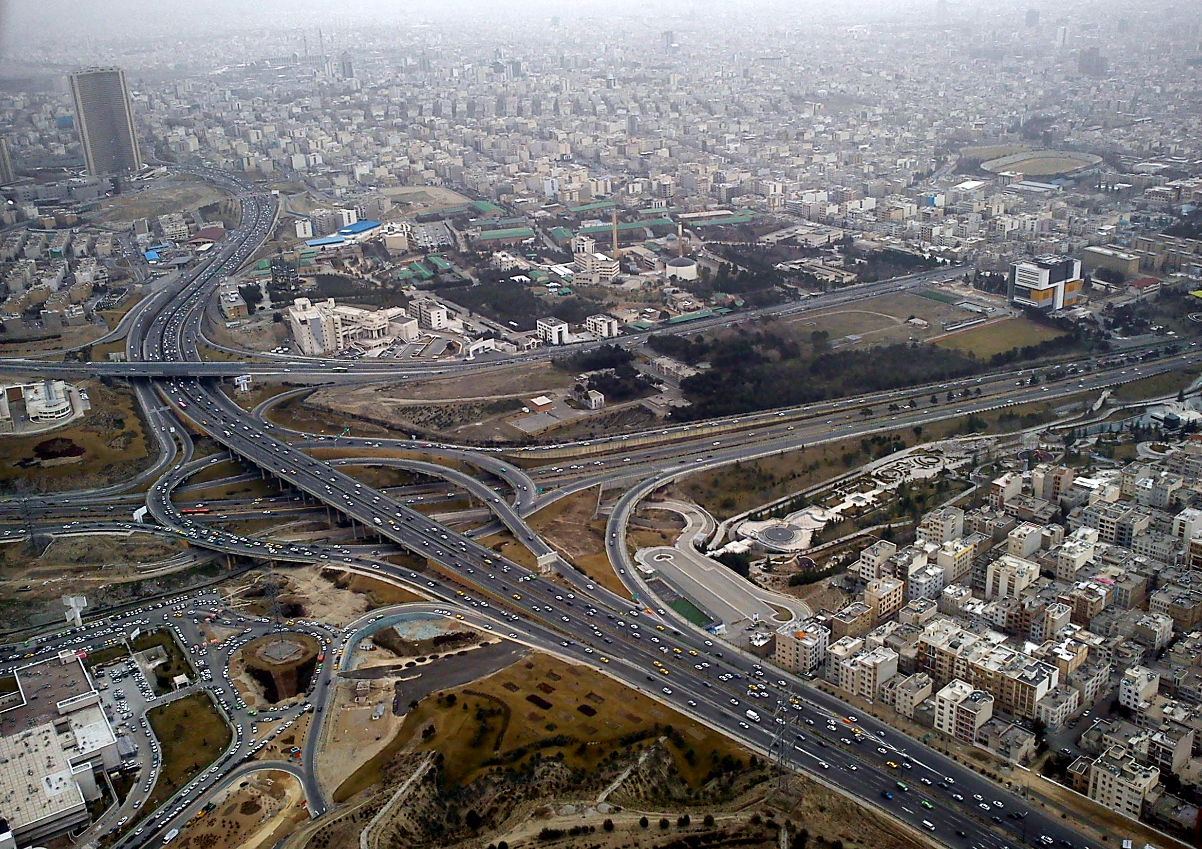 Tehran taken from Milad Tower